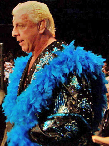 Cropped from Bild:Ricflair hamburg.jpg by Jtalledo. Applied Shadows/Highlight filter on Photoshop CS by Oakster.